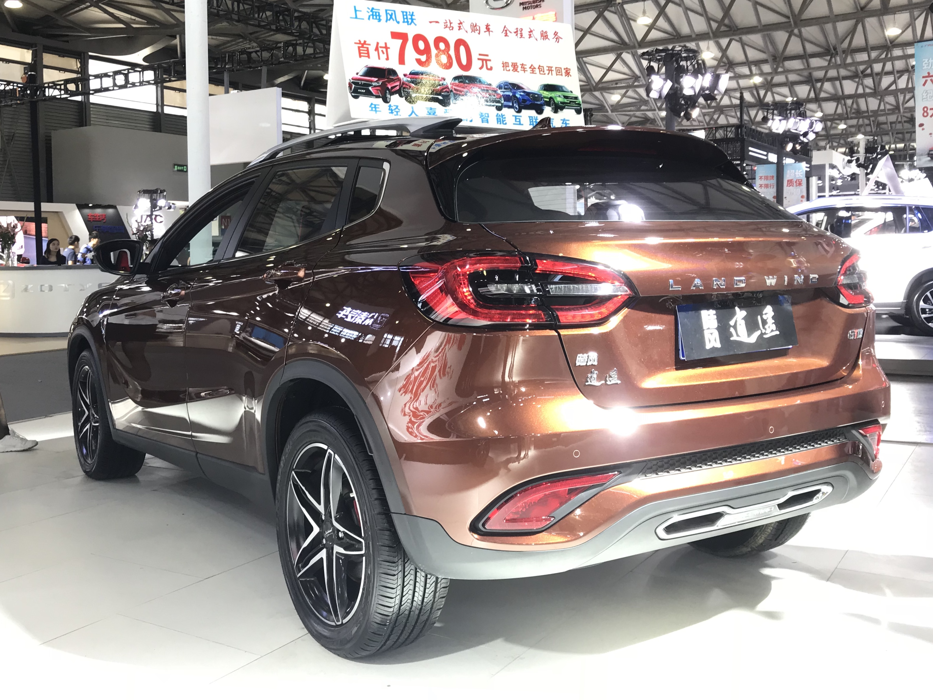 Landwind Xiaoyao rear